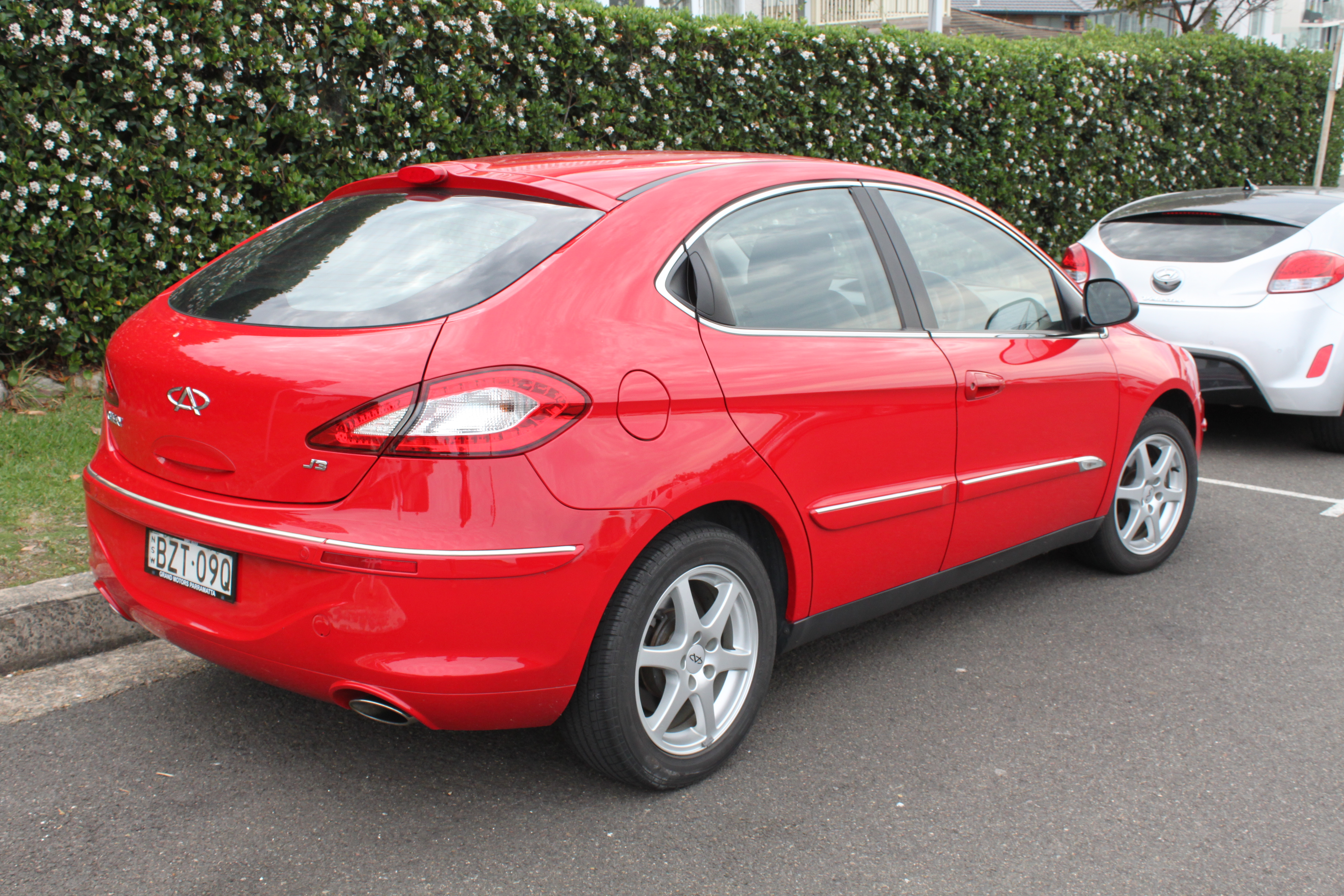 Chery J3 M1X